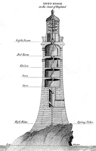 Engraving of Smeaton's Lighthouse. Captions, from top to bottom, are: EDDYSTONE on the Coast of England Light Room Bed Room Kitchen Store [storage] Store High Water—Spring Tide Low Water